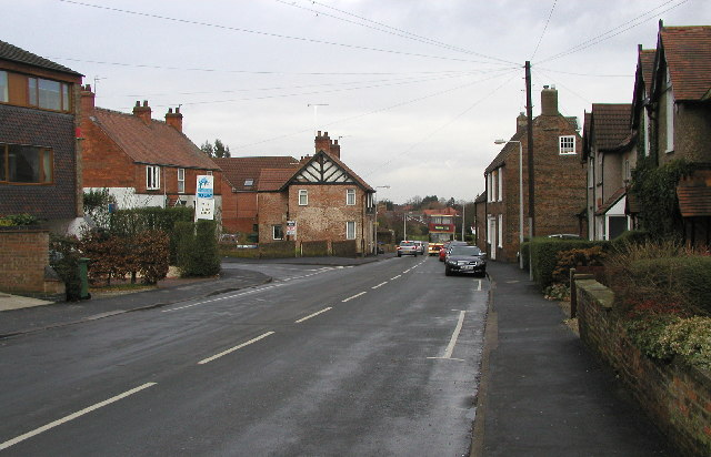 Swanland Village, East Riding of Yorkshire, England.Looking NW through the village of Swanland from MR: SE99702808.